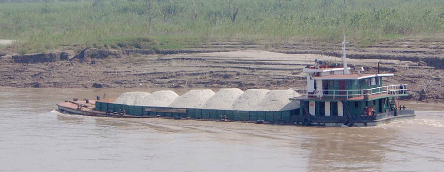 Self propelled barge on the Yangtze river upstream from Wuhan. Photo by Mike Martin., uploaded by User:Leonard G.